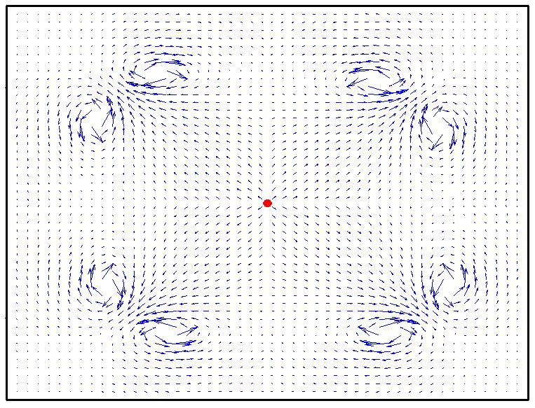 This is an image of the magnetic field generated by the MaGrid of a polywell, in the XY plane. The null point is marked in red, in the center. This field was generated by a computer and is meant to duplicate plots from several from "A biased probe analysis of potential well formation in an electron only, low beta polywell magnetic field.", "Forming and maintain a potential well in a quasi spherical magnetic trap." and "Low Beta Confinement in a Polywell Modeled with Conventional Point Cusp Theories". It is not an exact copy. Other information This image is meant to duplicate plots from "A biased probe analysis of potential well formation in an electron only, low beta polywell magnetic field.", "Forming and maintain a potential well in a quasi spherical magnetic trap." and "Low Beta Confinement in a Polywell Modeled with Conventional Point Cusp Theories." It is not an exact copy.